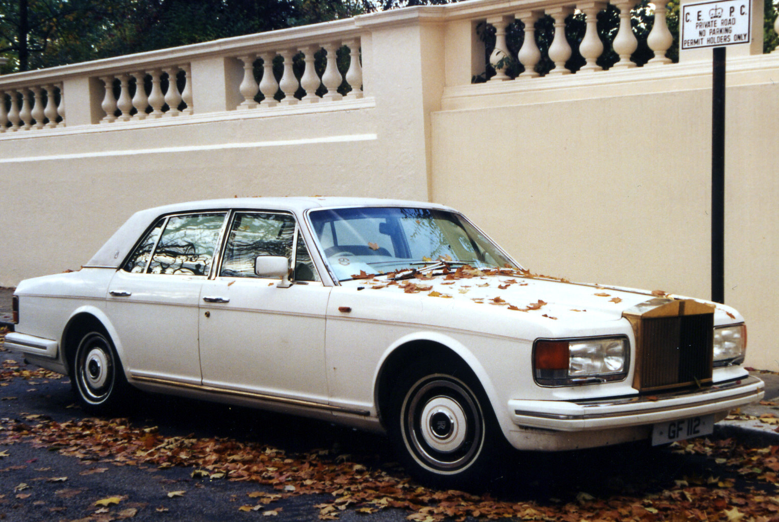 Rolls Royce Silver Spur in London, near Regents Park.